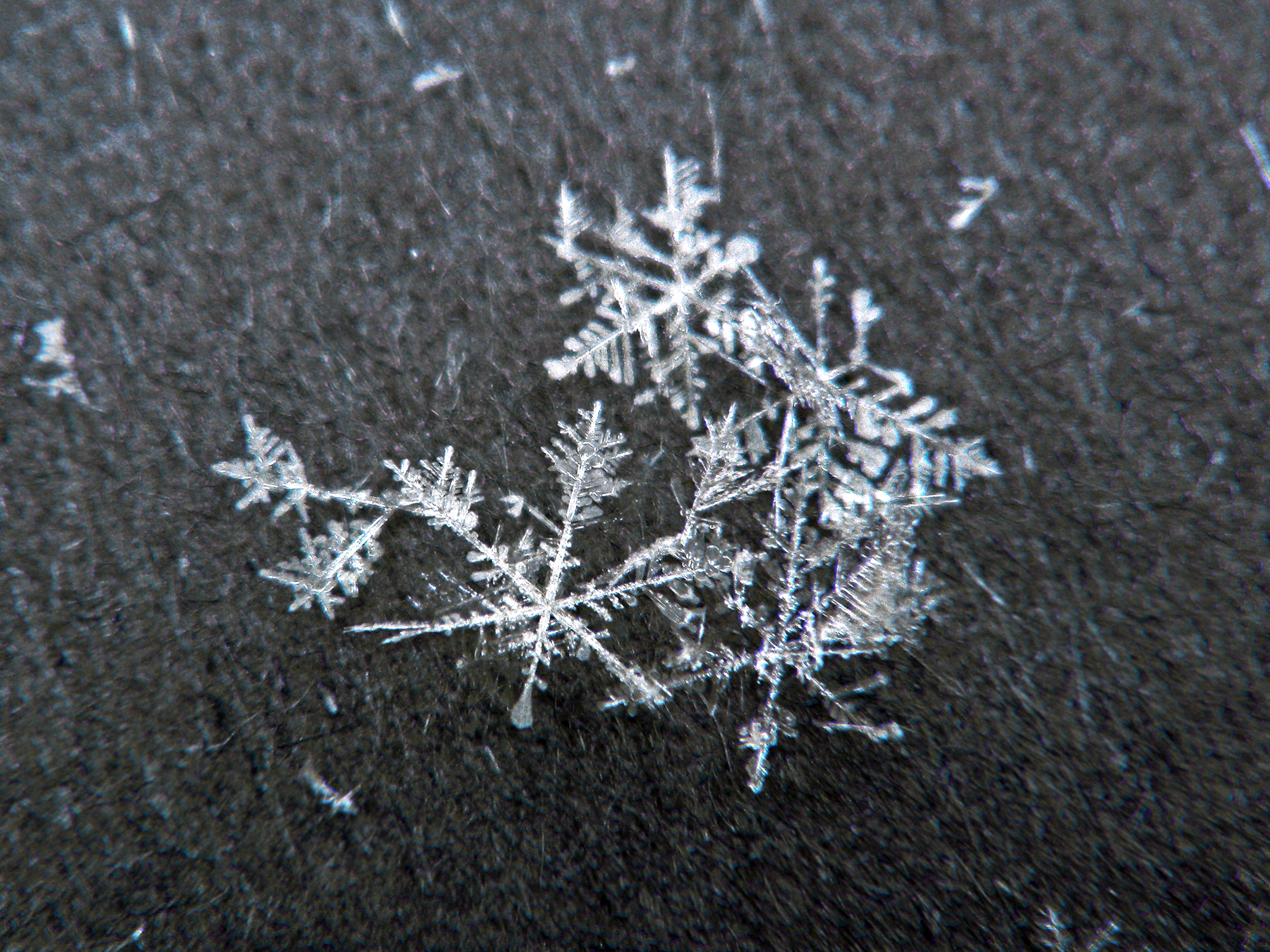 Snow flakes photographed against a piece of black paper.